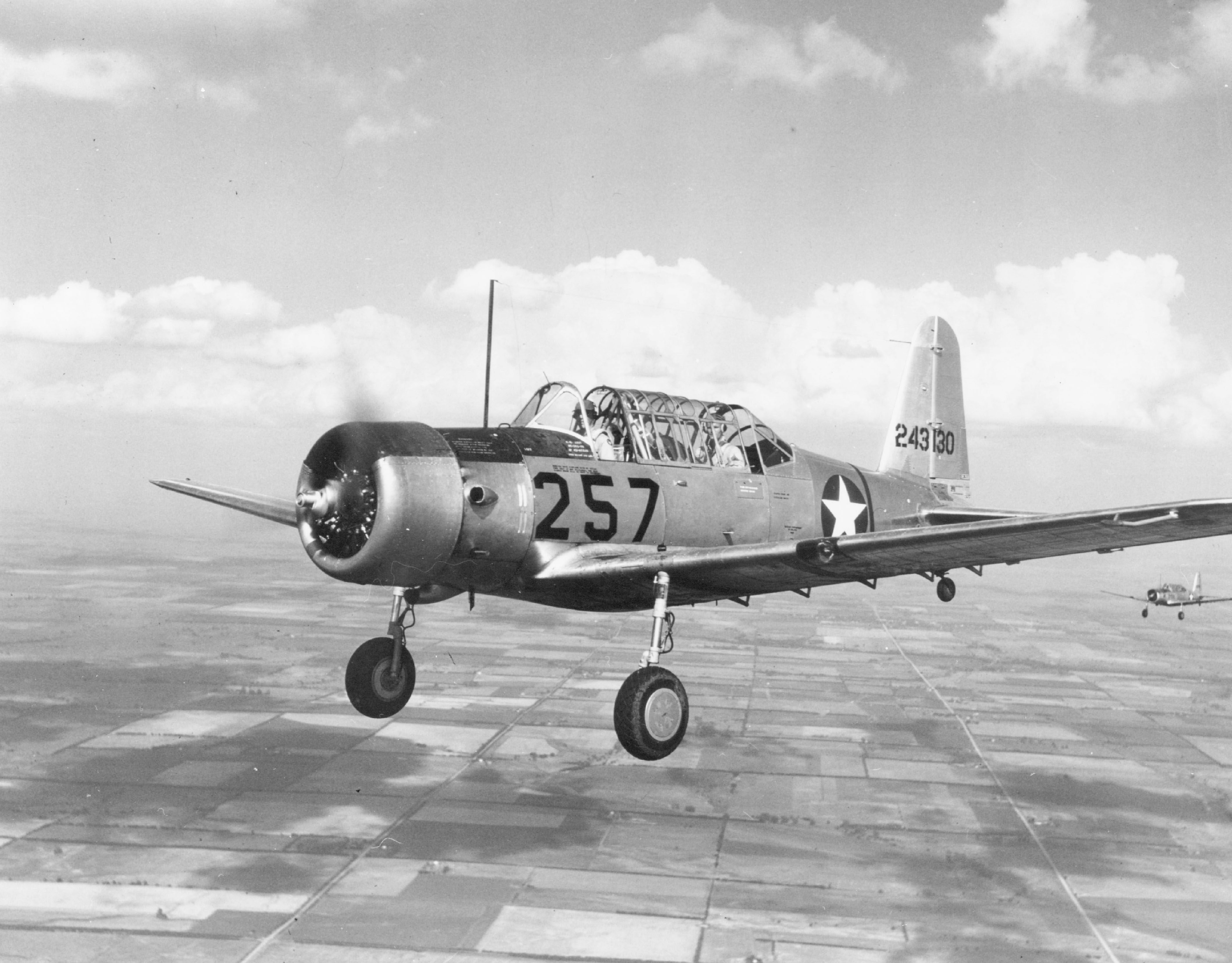 A U.S. Air Force Vultee BT-13A (s/n 42-43130) in flight. The BT-13 served almost exclusively as the basic type for all aircrews trained in the U.S. during World War II. By 1945, the aircraft was being replaced with other advanced models and after the war the aircraft was retired.